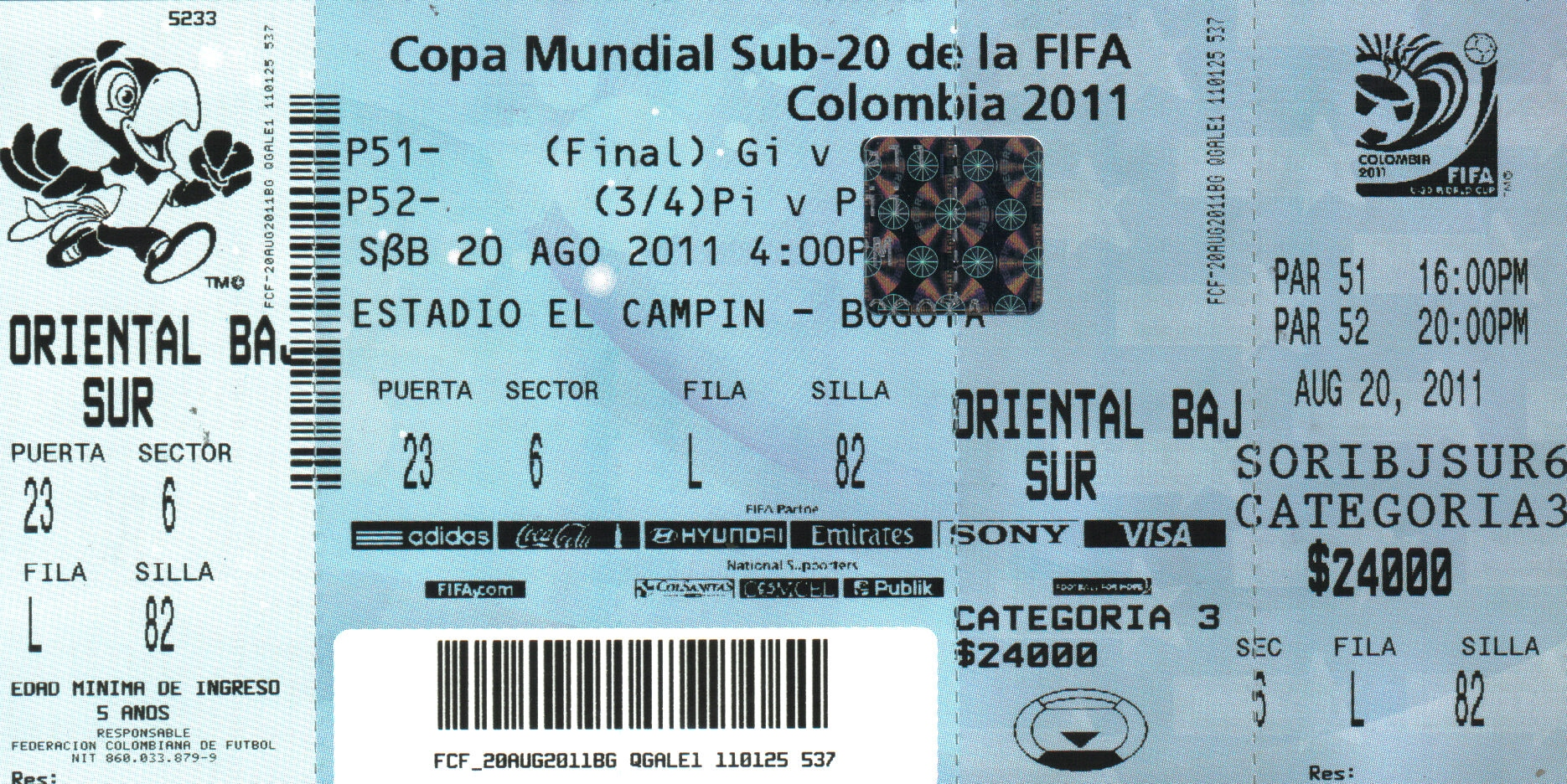 Ticket to attend the championship. The price is in Colombian currency.